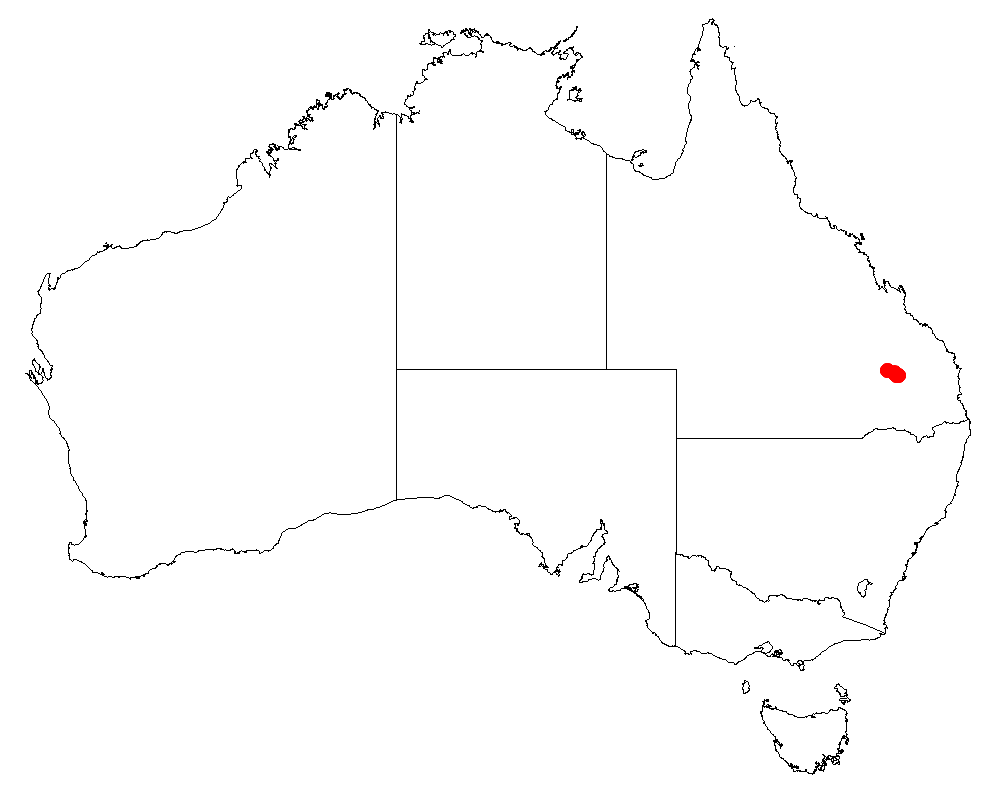 Homoranthus decumbens Occurrence data from AVH downloaded 28 September 2018